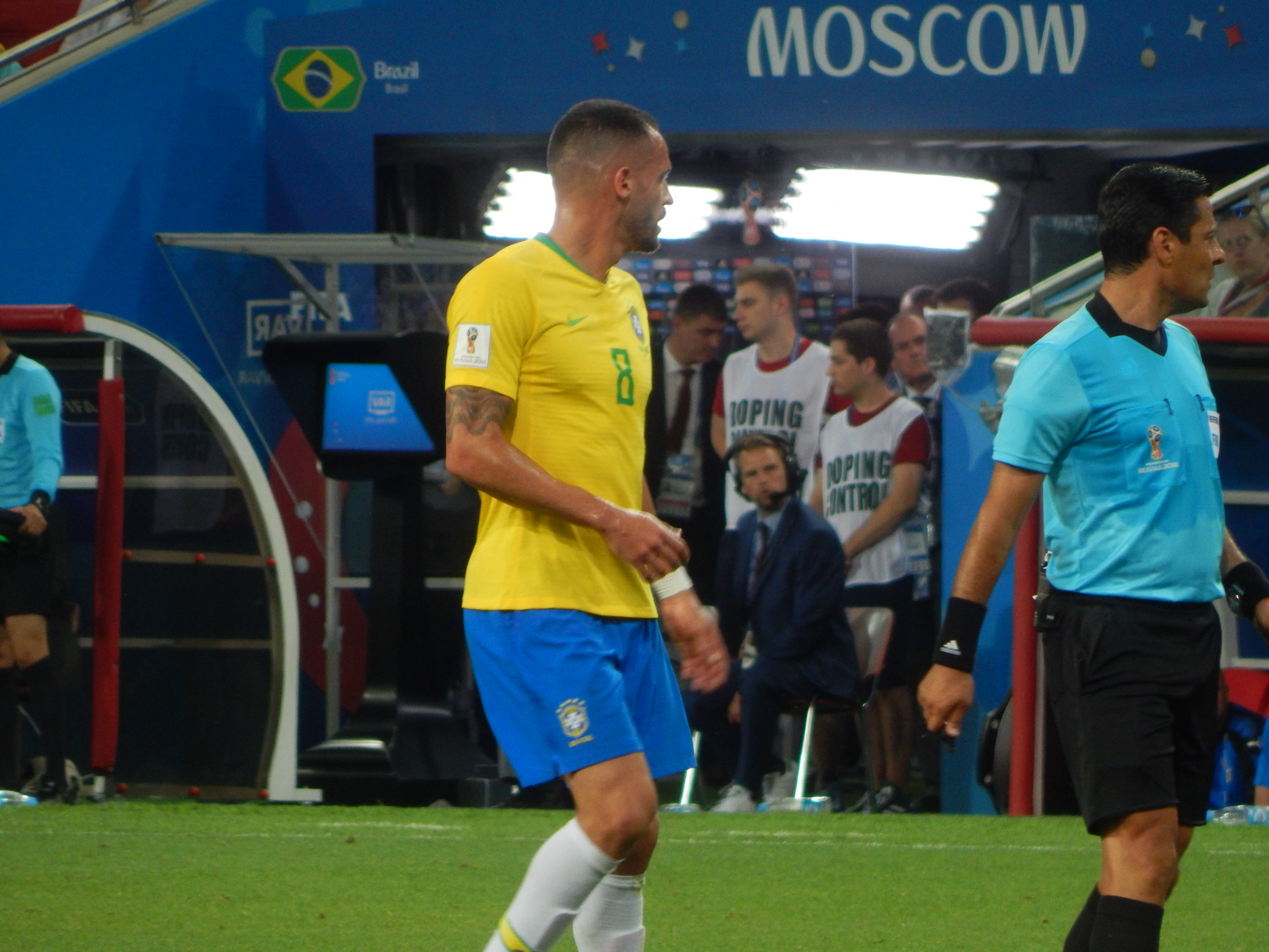 FIFA World Cup 2018, Group E, Serbia vs. Brazil